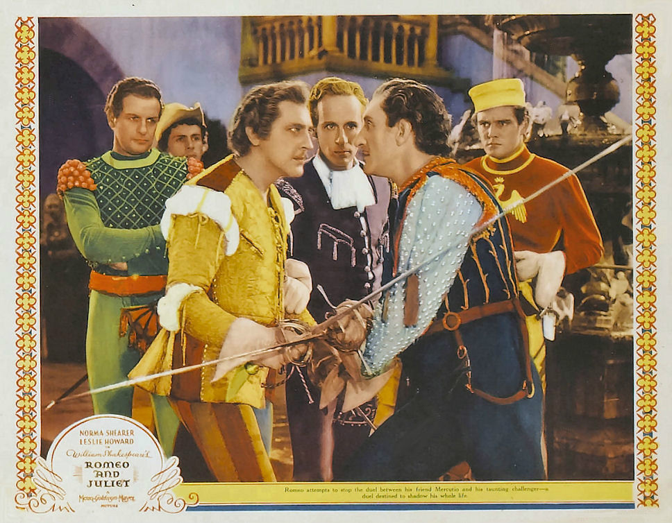 Lobby card from the 1936 film Romeo and Juliet. Pictured are John Barrymore, Leslie Howard and Basil Rathbone.